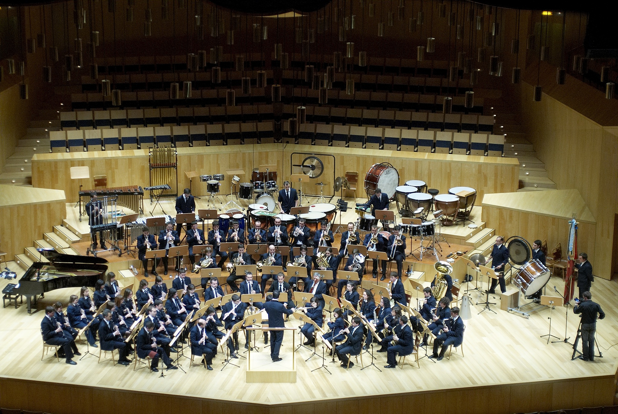 Unió Musical de Vilafranca